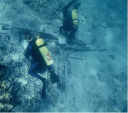 Navy archaeologists map an early 19th century shipwreck. From Underwater Archaeology Branch, Naval History & Heritage Command